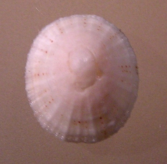 Eoacmaea profunda (Deshayes, 1863) (synonym: Patelloida profunda G. P. Deshayes, 1863), a limpet from the family Lottiidae; Philippines